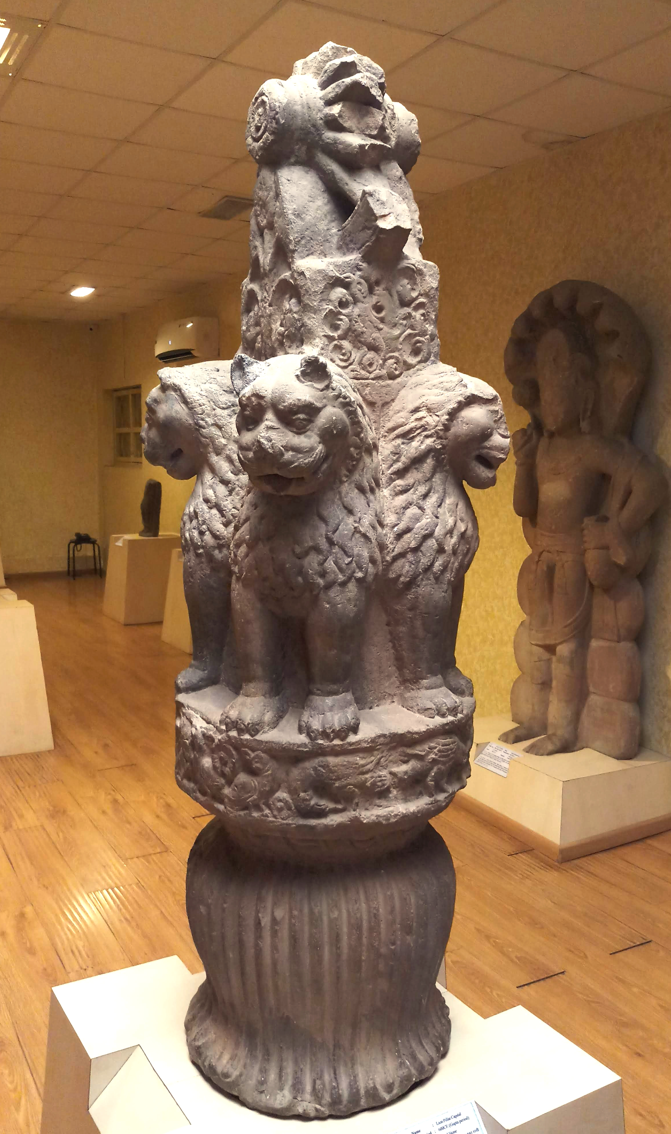 Pillar 26 capital at Sanchi